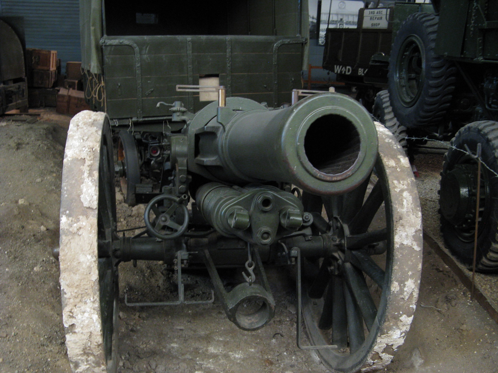 Muzzle view of British BL 6 inch 30 cwt howitzer, at Imperial War Museum Duxford, UK.